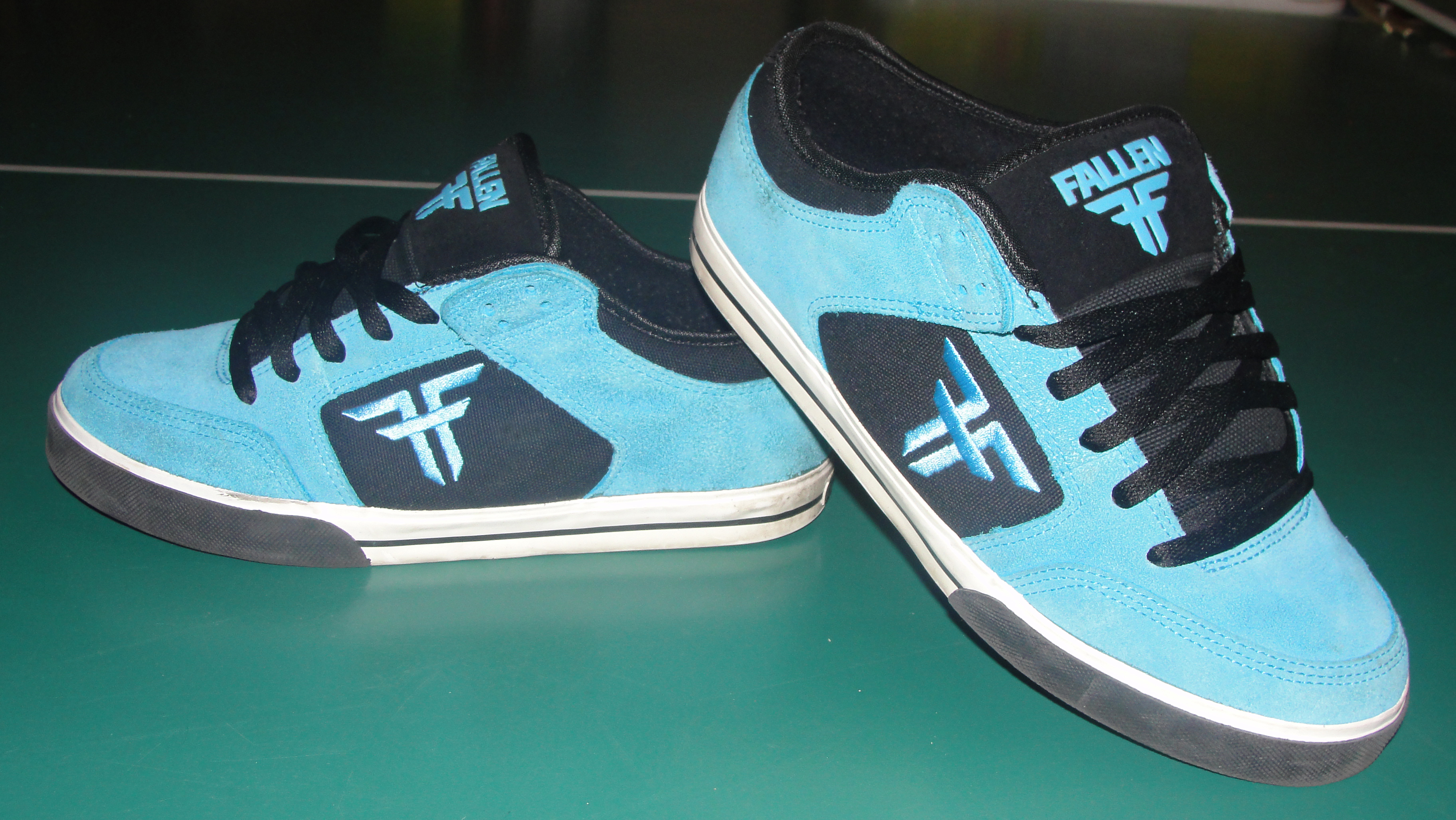 A pair of Chris Cole Model skate shoes by Fallen Footwear.